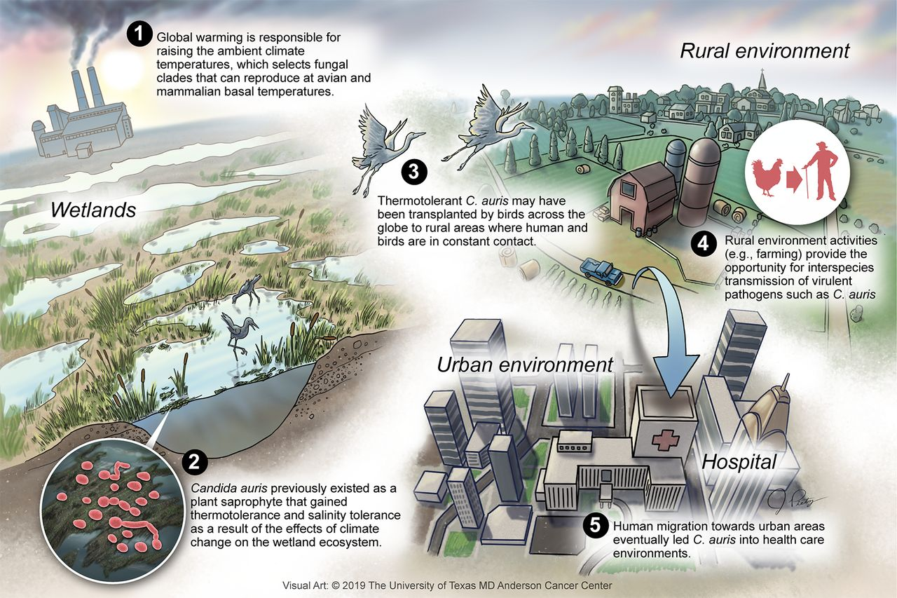 A scheme for the possible factors operating on the emergence of Candida auris